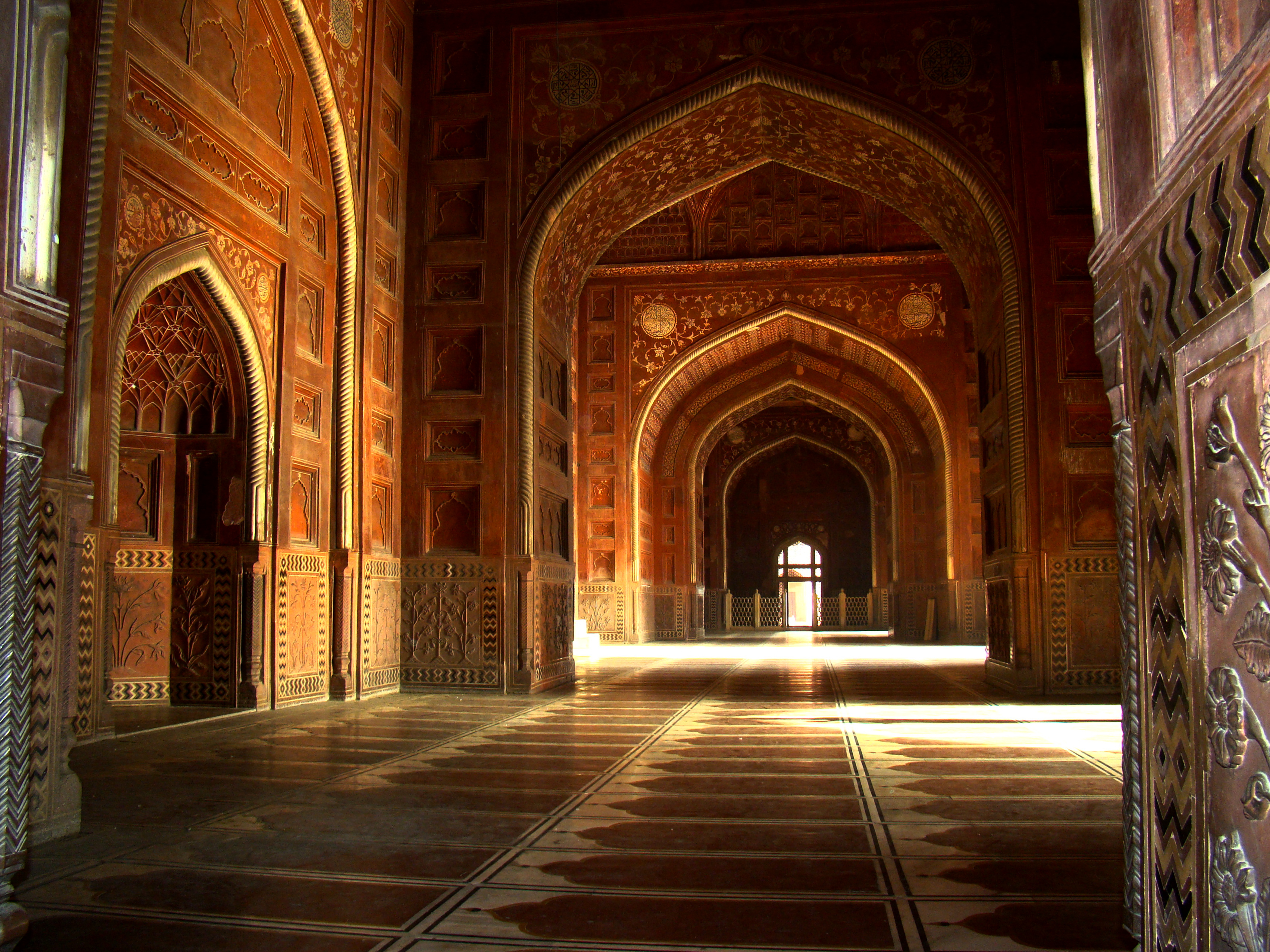 Inside the mosque to the west of the Taj Mahal mausoleum.